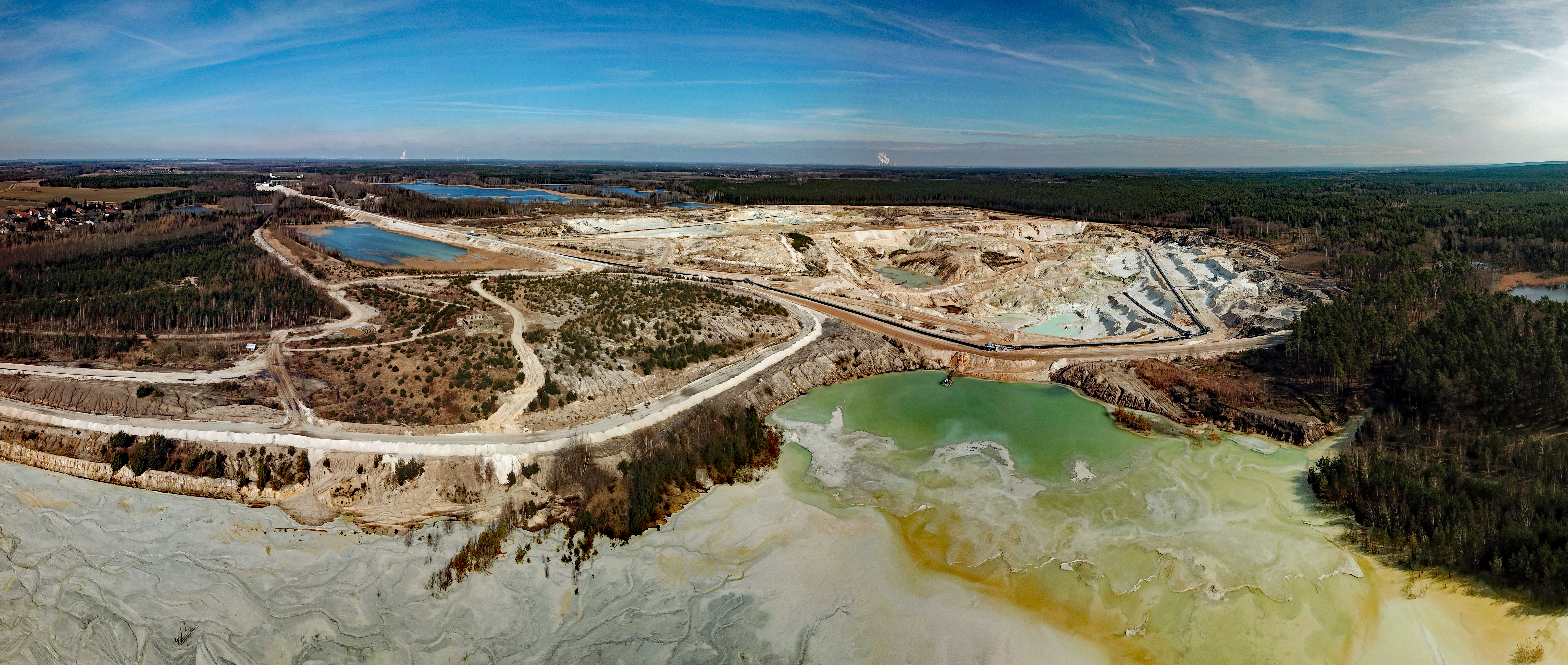 Caminau Kaolin quarray (Königswartha, Saxony, Germany)